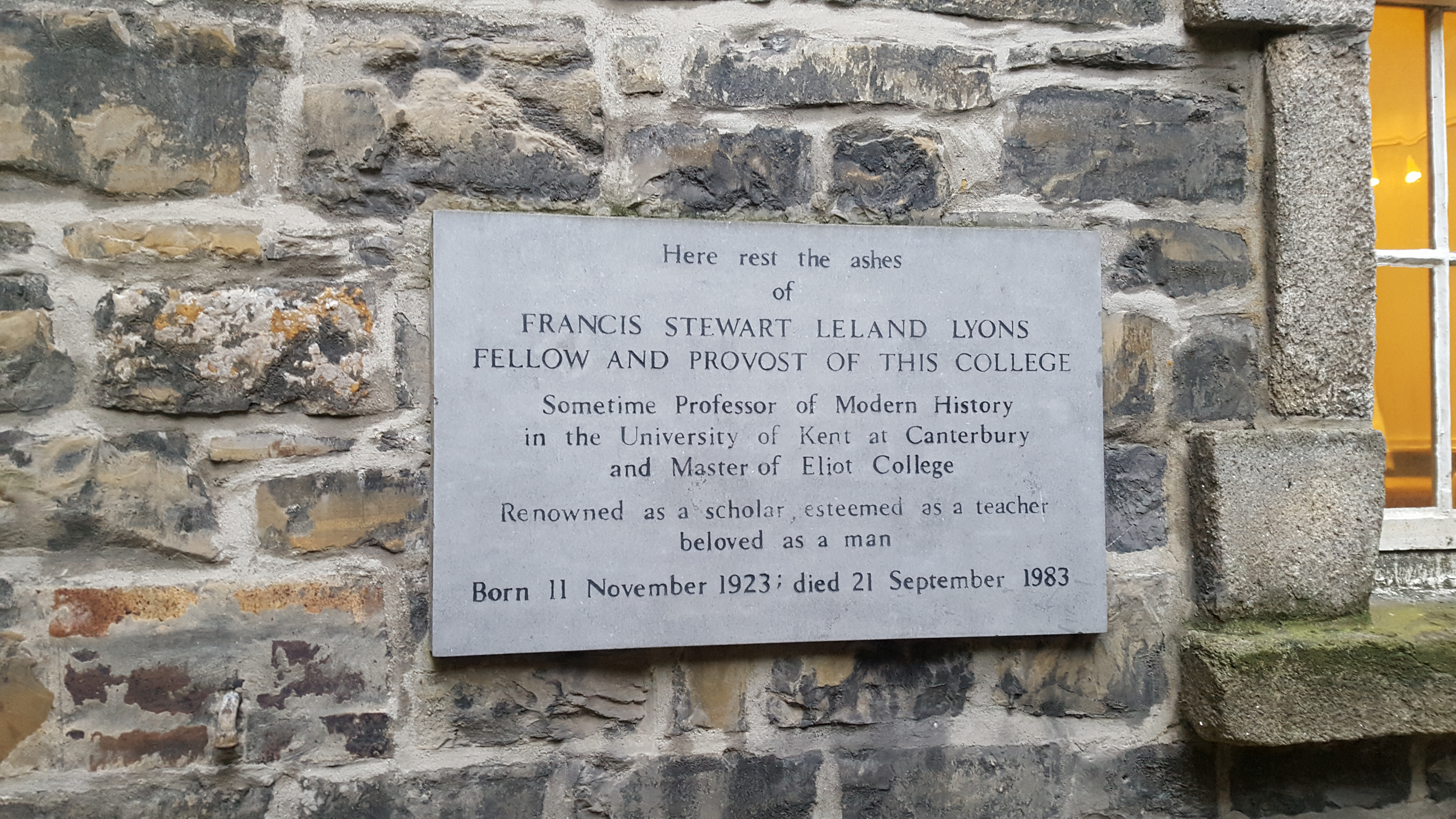 Francis Stewart Leland Lyons (1923 – 1983), an Irish historian who was Provost of Trinity College Dublin from 1974 to 1981. He is buried with other college provosts from over the centuries beside the Chapel in Challoner’s Corner.